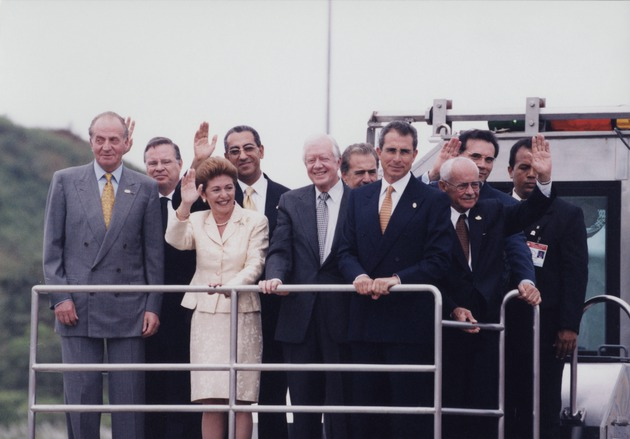 Ceremonial Transfer of Canal Zone to Panama at MirafloresLock